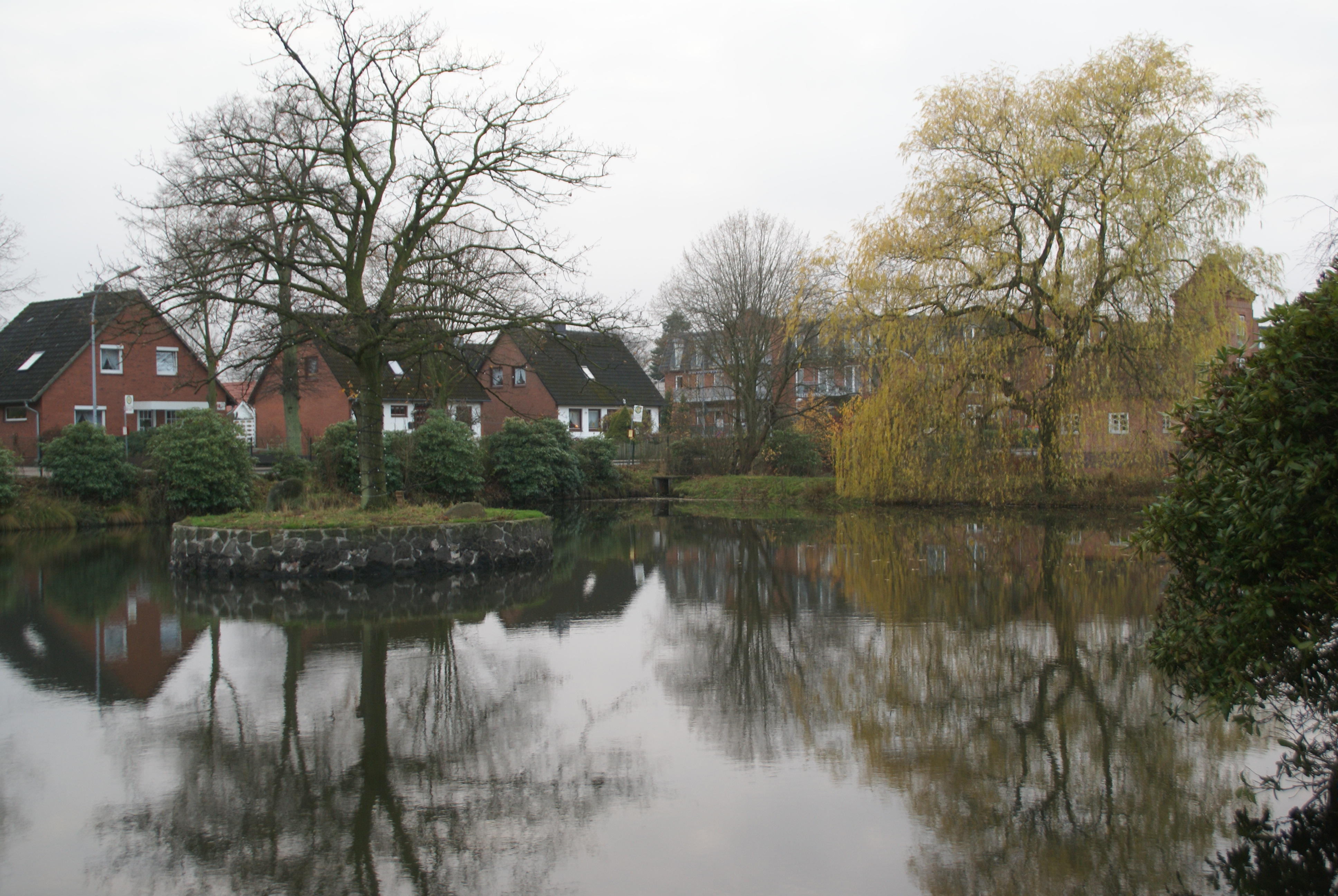 Henstedt-Ulsburg (Henstedt), Germany: The Pond Wöddel where the Wöddelbek springs